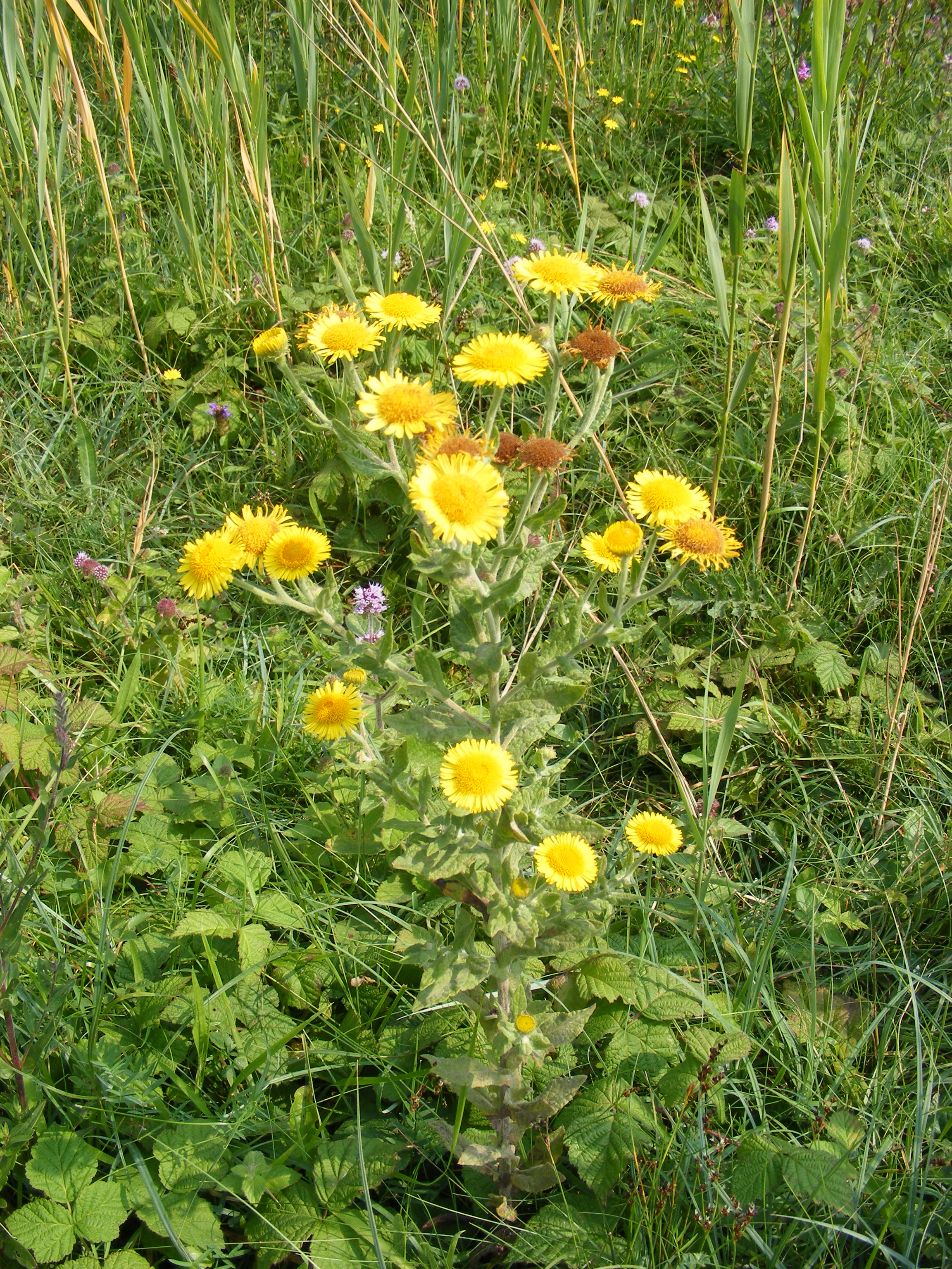 This photo shows Pulicaria dysenterica